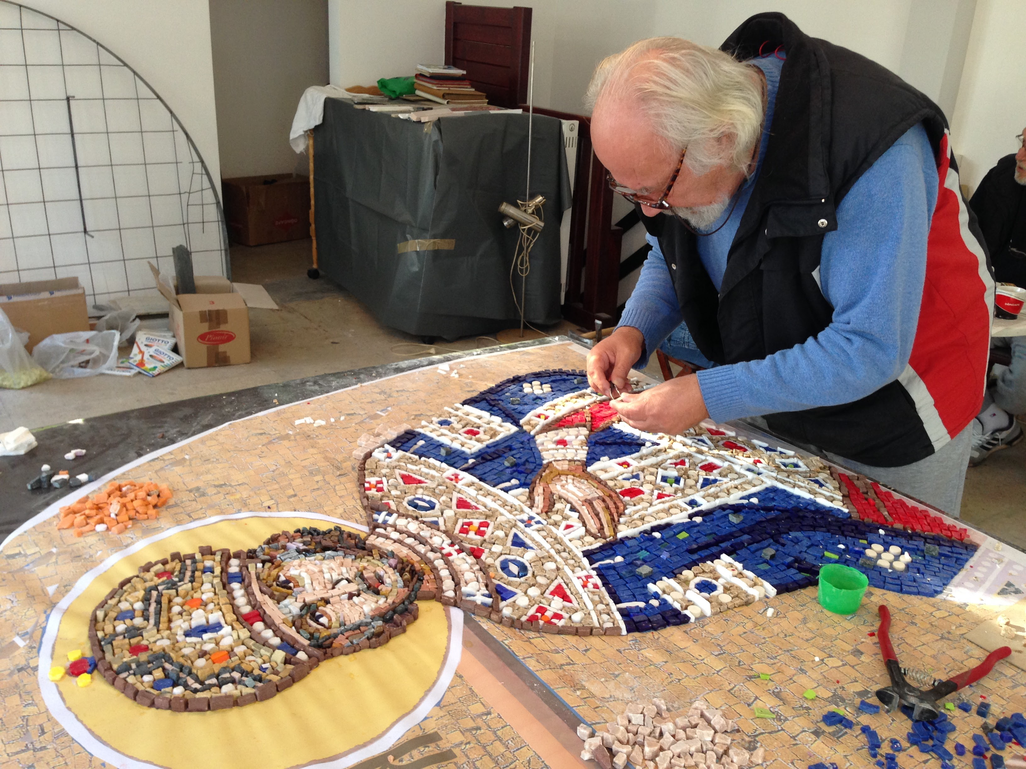 Ljubiša Brković, Niš, Serbia, oktobar 2017.